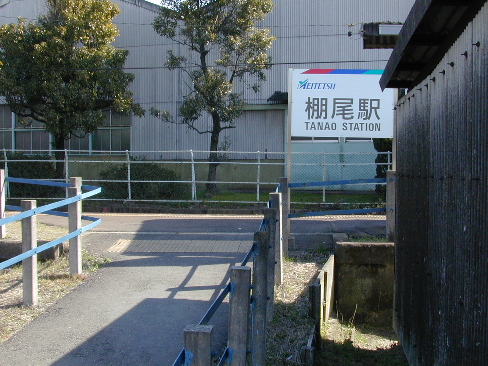 Entrance of Tanao Station